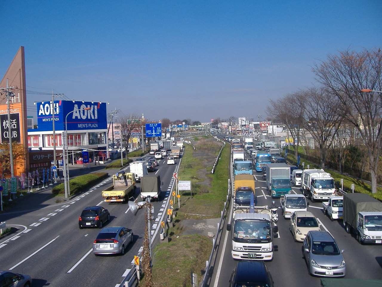 R-17 Shin-Omiya bypass(Saitama, Japan)